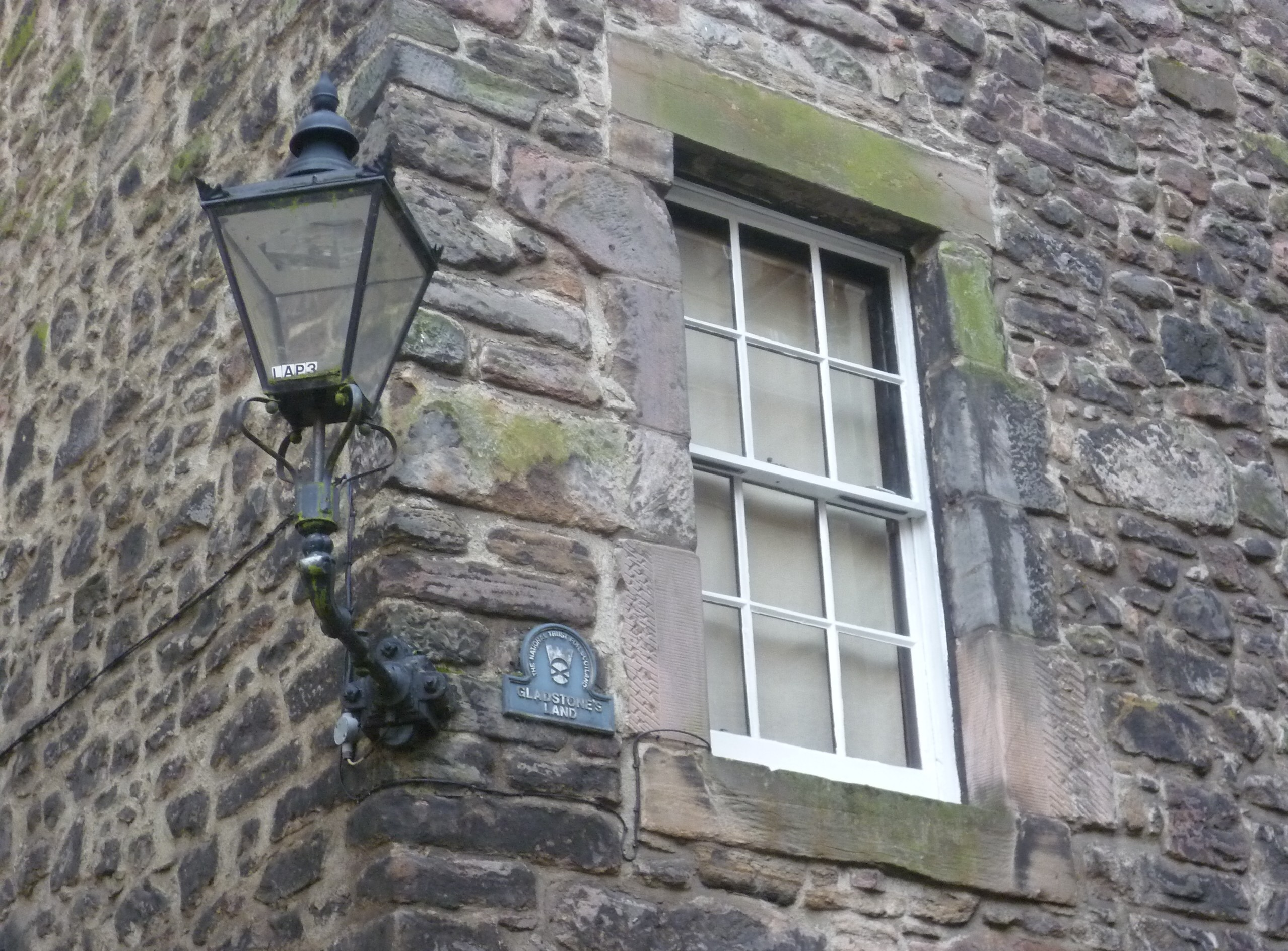 A replica gas lamp, which uses electricity, on Gladstone's Land in the Old Town of Edinburgh